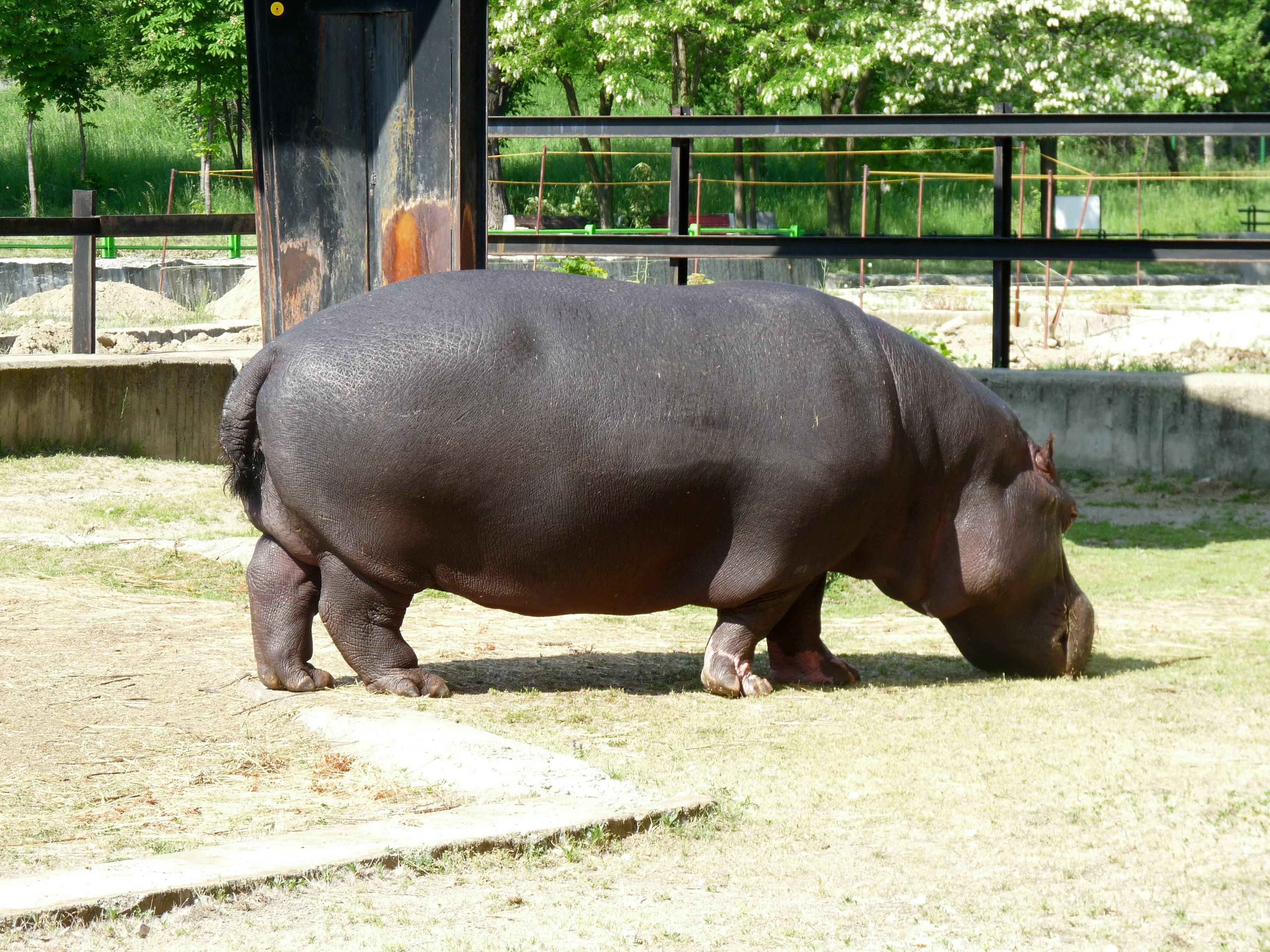 Norman the hippo at Sofia Zoo, 22nd May 2009